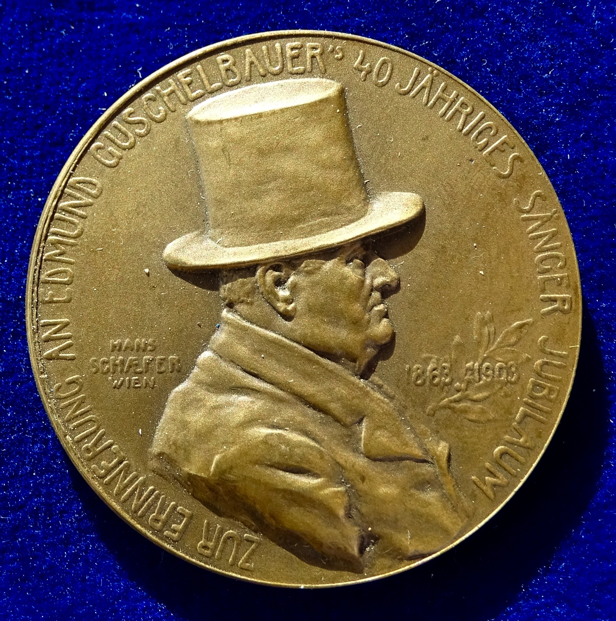 Art Nouveau Medal by Hans Schaefer of Edmund Guschelbauer, Vienna, Austria. Bronze medallion d. = 44 mm. Guschelbauer, Edmund, Viennese country singer, 1839 Wien - 1912 Vienna, Austria. Portrait r. l. of 1 line: "1863 - 1903", around: "ZUR ERINNERUNG AN EDMUND GUSCHELBAUER'S 40 JÄHRIGES SÄNGER JUBILAUM"/ 12 lines: "WANN I AUF D' NACHT IN'S WIRTSHAUS KOMM' SO RENNT DER WIRT- DER KELLNER UM, DIE GAEST' SCHREIN: SERVUS, ALTER SPATZ MACHT MIR A JEDER GLEICH AN PLATZ I: DENN MICH KENNT ALT UND JUNG IN WIEN: I I: WEIL- I- A- ALTER DRAHRER BIN- A- SO- A- AUFDRAHRER BIN: I". Wurzbach 3436; Forrer V, p. 350. Artist: Hans Schaefer, Sculptor in Vienna, 1875 Sternberg (Moravia) - 1933 Chicago, US. Condition: UNCIRCULATED.